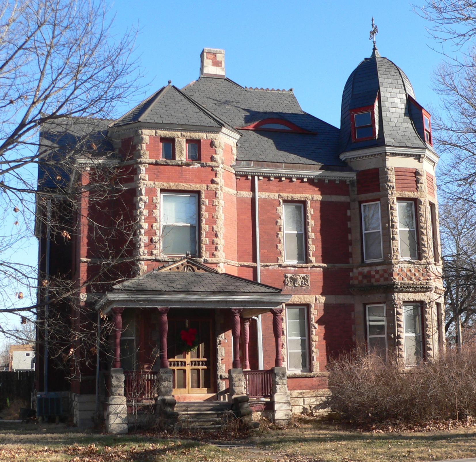 William H. Tyler house, located at 808 D Street in Lincoln, Nebraska; seen from the west.